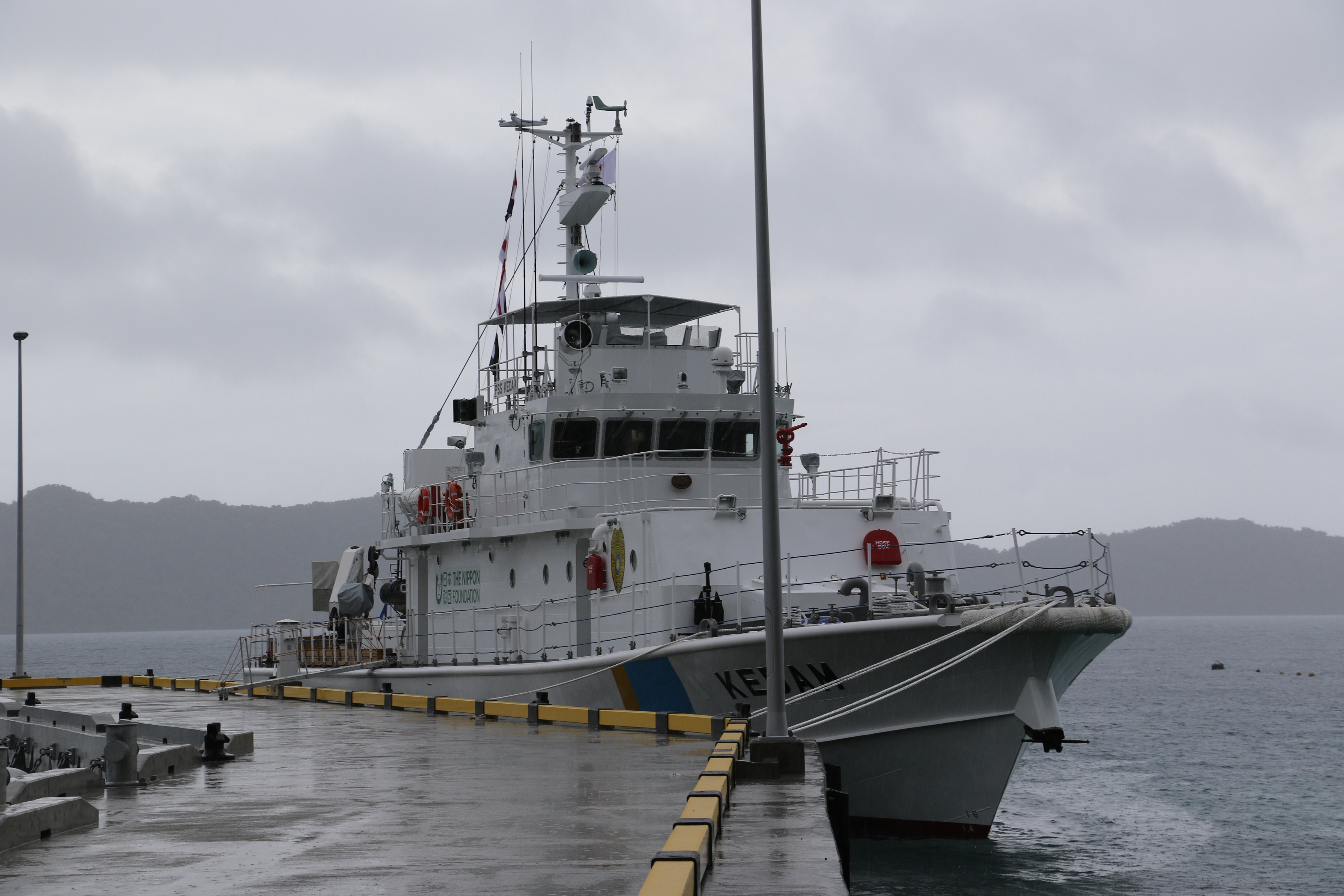 Palau Bureau of Public Division of Marine Law Enforcement PSS Kedam, donated by the Nippon Foundation and Sasakawa Peace Foundation.